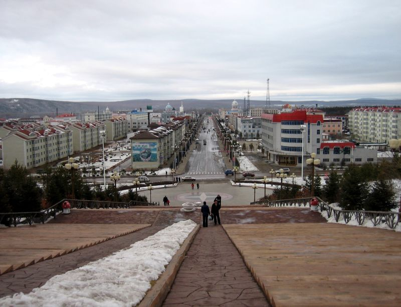 Mohe County seat